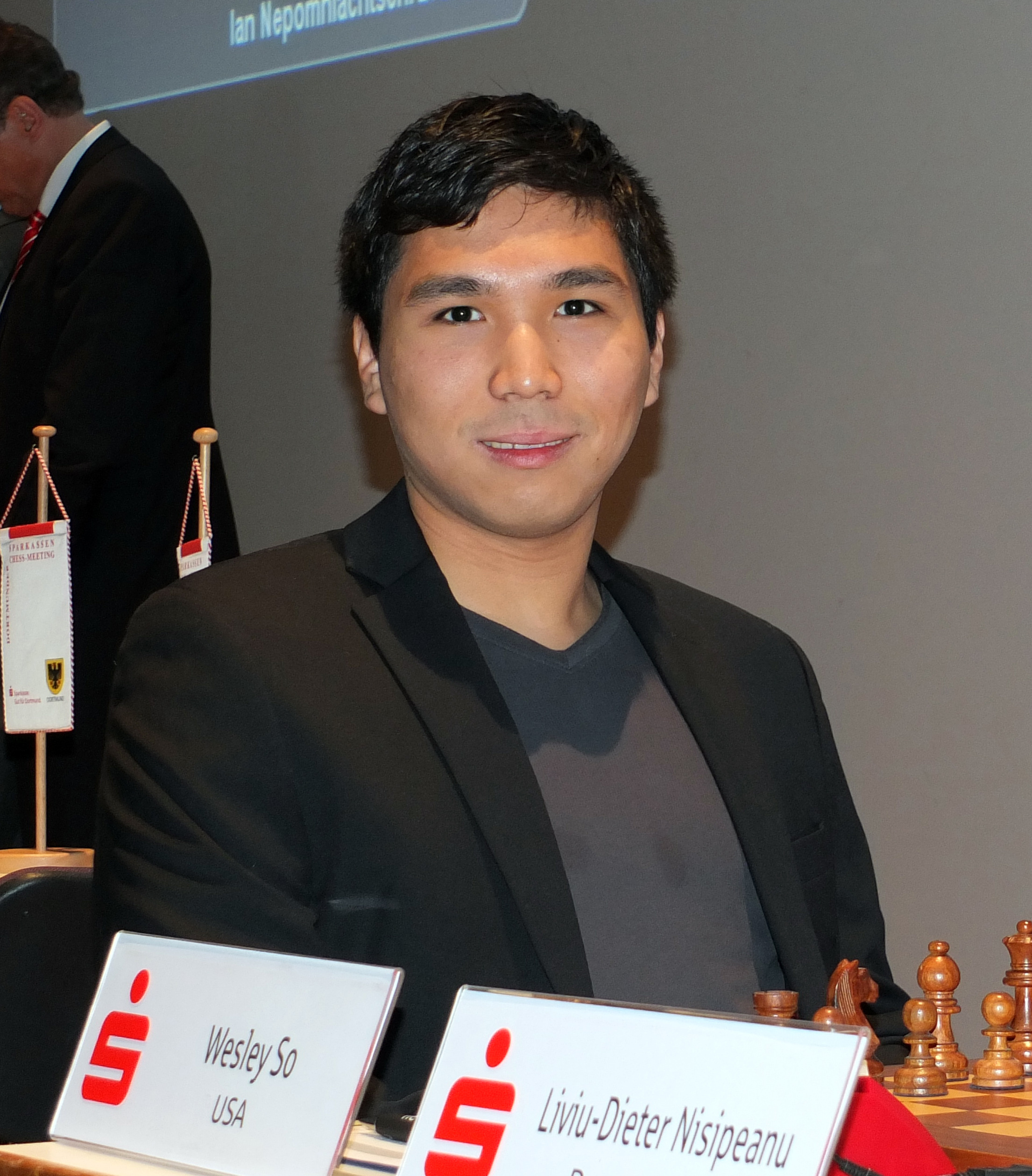 Wesley So, chess grandmaster from the USA at the Dortmund Sparkassen Chess Meeting